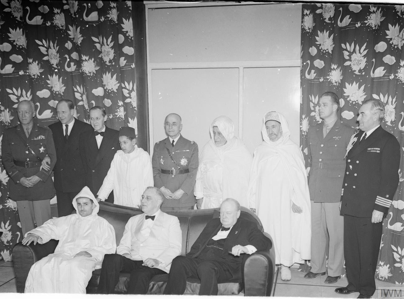 Allies Grand Strategy Conference in N Africa- President Roosevelt Meets Mr Churchill. One of the Most Momentous Conferences of This War Began on January 14, 1943 Near Casablanca, When President Roosevelt and Mr Churchill Met To Survey the Entire Field of War, Theatre by Theatre. They Were Accompanied by the Chiefs of Staff of the Two Countries. All Resources Were Marshalled For the Active and Concerted Execution of the Allies' Plans For the Offensive Campaign of 1943. Mr Roosevelt Later Described the Meeting As the 'unconditional Surrender' Meeting, by Which He Meant That the Unconditional Surrender by the Axis Was the Only Assurance of Future World Peace. General De Gaulle and General Giraud Also Met at Casablanca and Discussed the Unification of the War Effort of the French Empire. At President Roosevelt's Anfa Villa. The Sultan of Morocco with the President and Mr Churchill. Also in the group are General Nogues, the Sultan's Ministers and the Sultan's Heir and Colonel E Roosevelt.